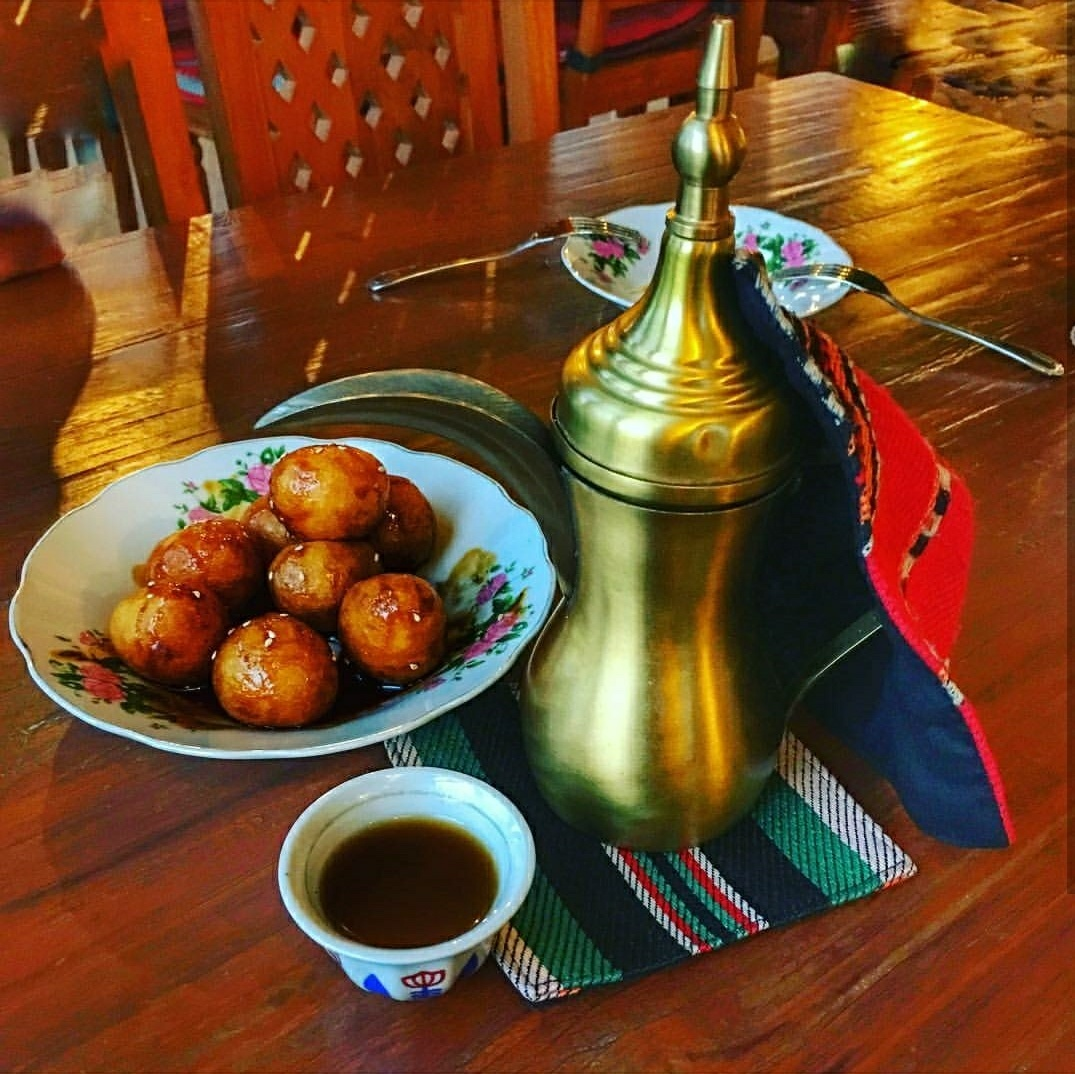 Arabic Coffee with Lugaimat; traditional Emirati sweets.